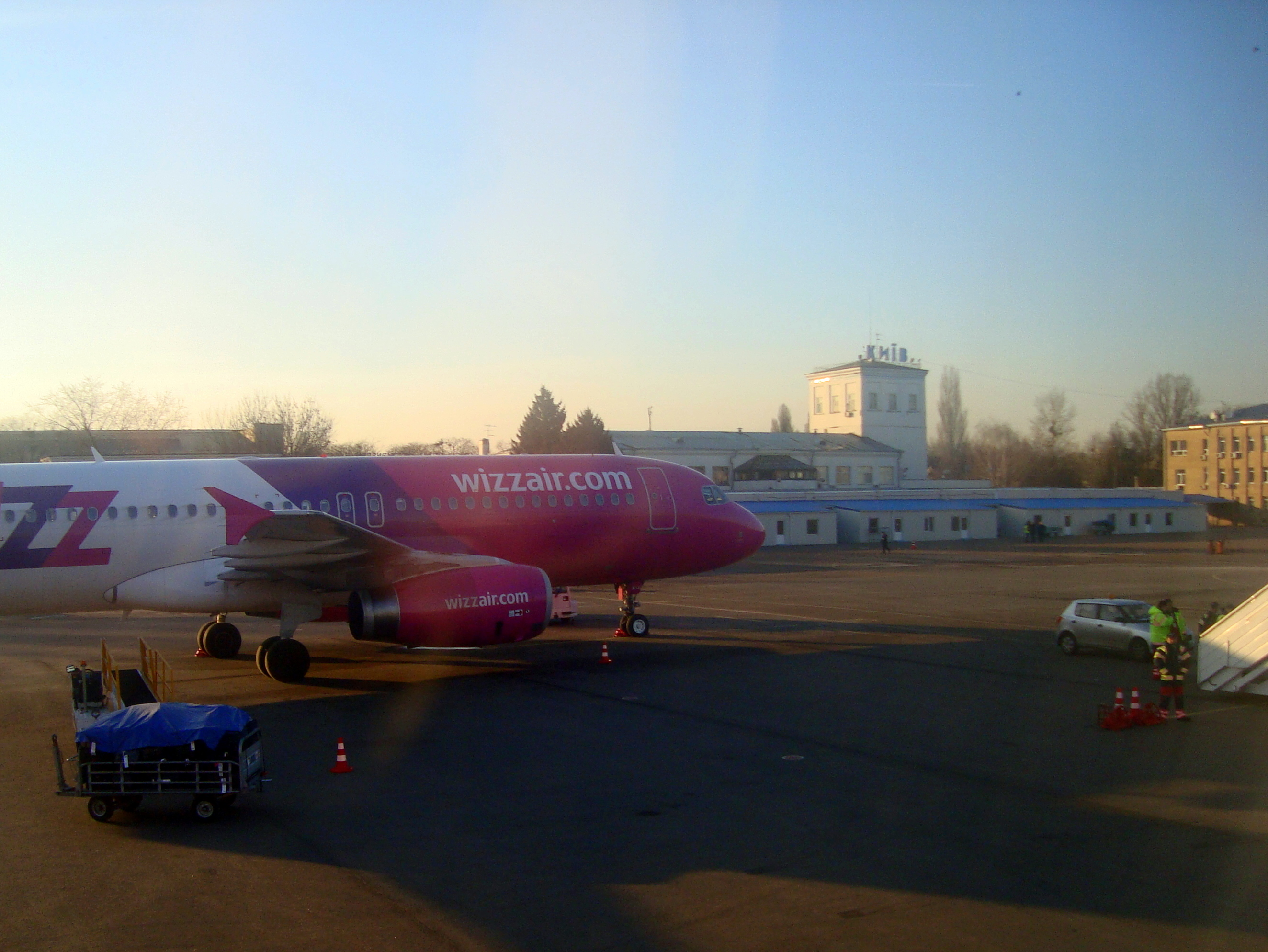 A Wizz Air Airbus A320 on the apron at Kiev 'Zhulyany' International Airport, Kiev, Ukraine. Wizz Air no longer uses the old "B" terminal seen on background.